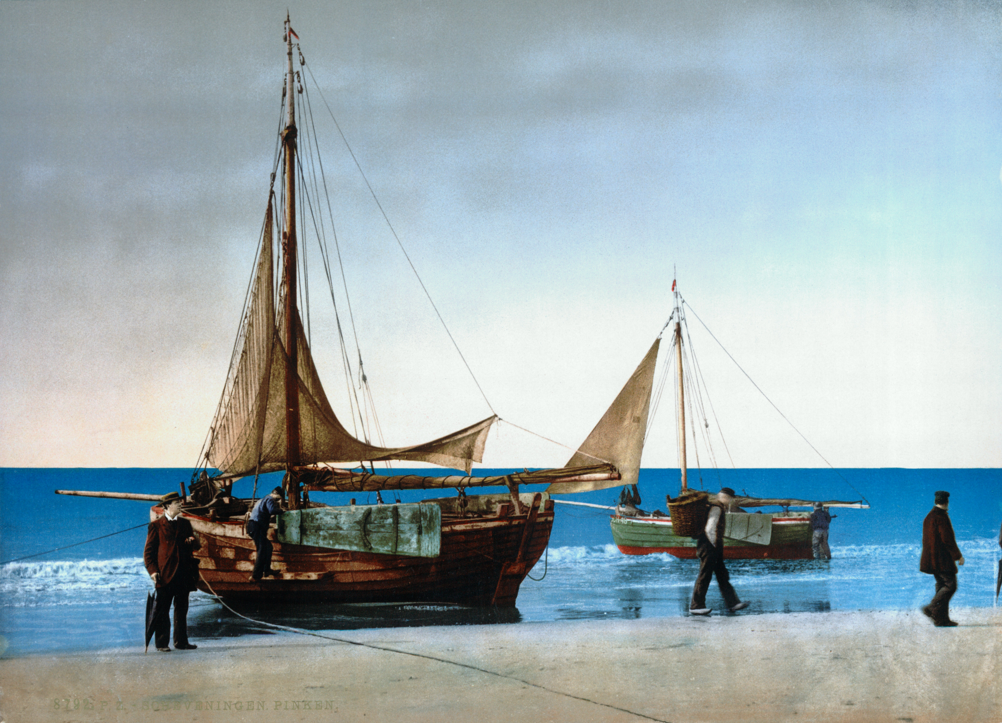 Scheveningen (Netherlands) - Pinken